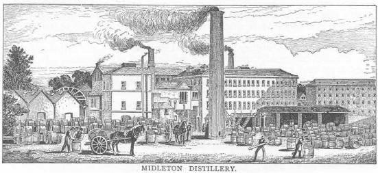 Old Midleton Distillery close to Cork in Ireland